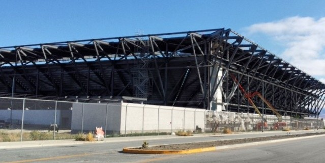 San Jose Earthquakes Stadium under construction in Jun 2014